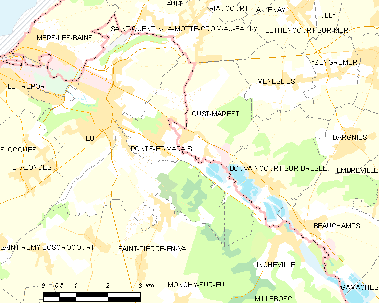 Map of French municipality Ponts-et-Marais